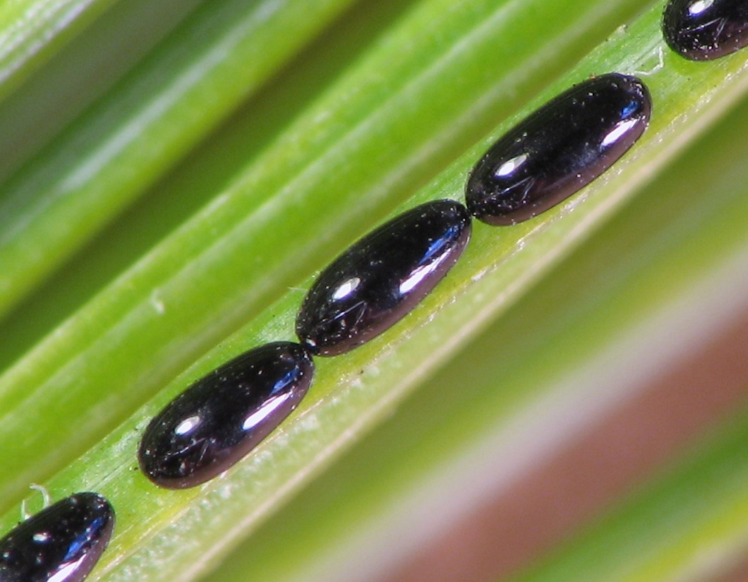 Eggs of white pine aphid, Cinara strobi, on white pine needles. Size: ea. +1 mm, string 10 mm. Churchville Nature Center, Bucks County, Pennsylvania, USA.